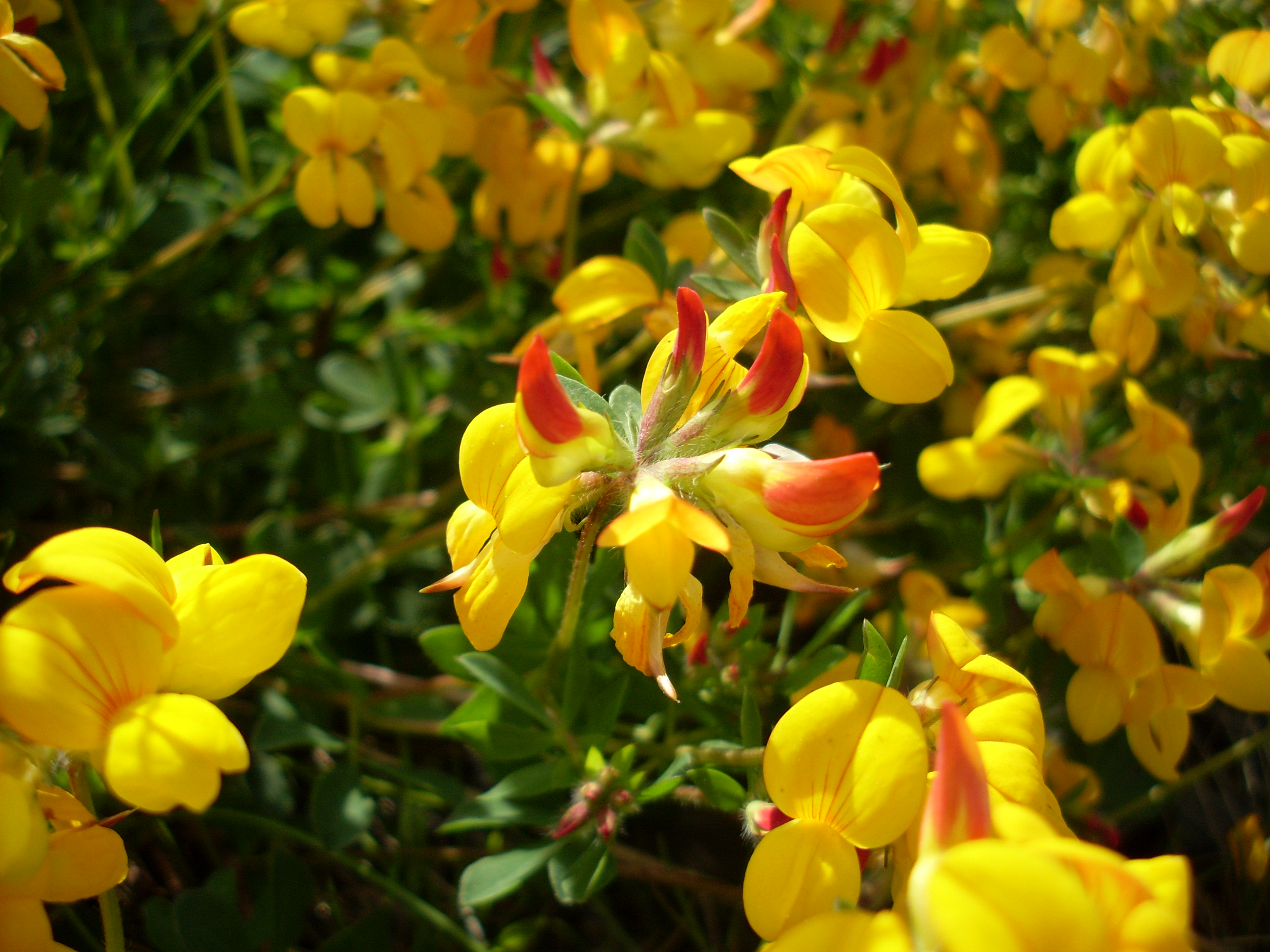 Lotus corniculatus - picture taken in south Sweden